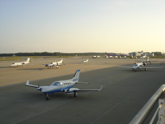 The General Aviation Terminal at Raleigh-Durham International Airport. Taken by RJ